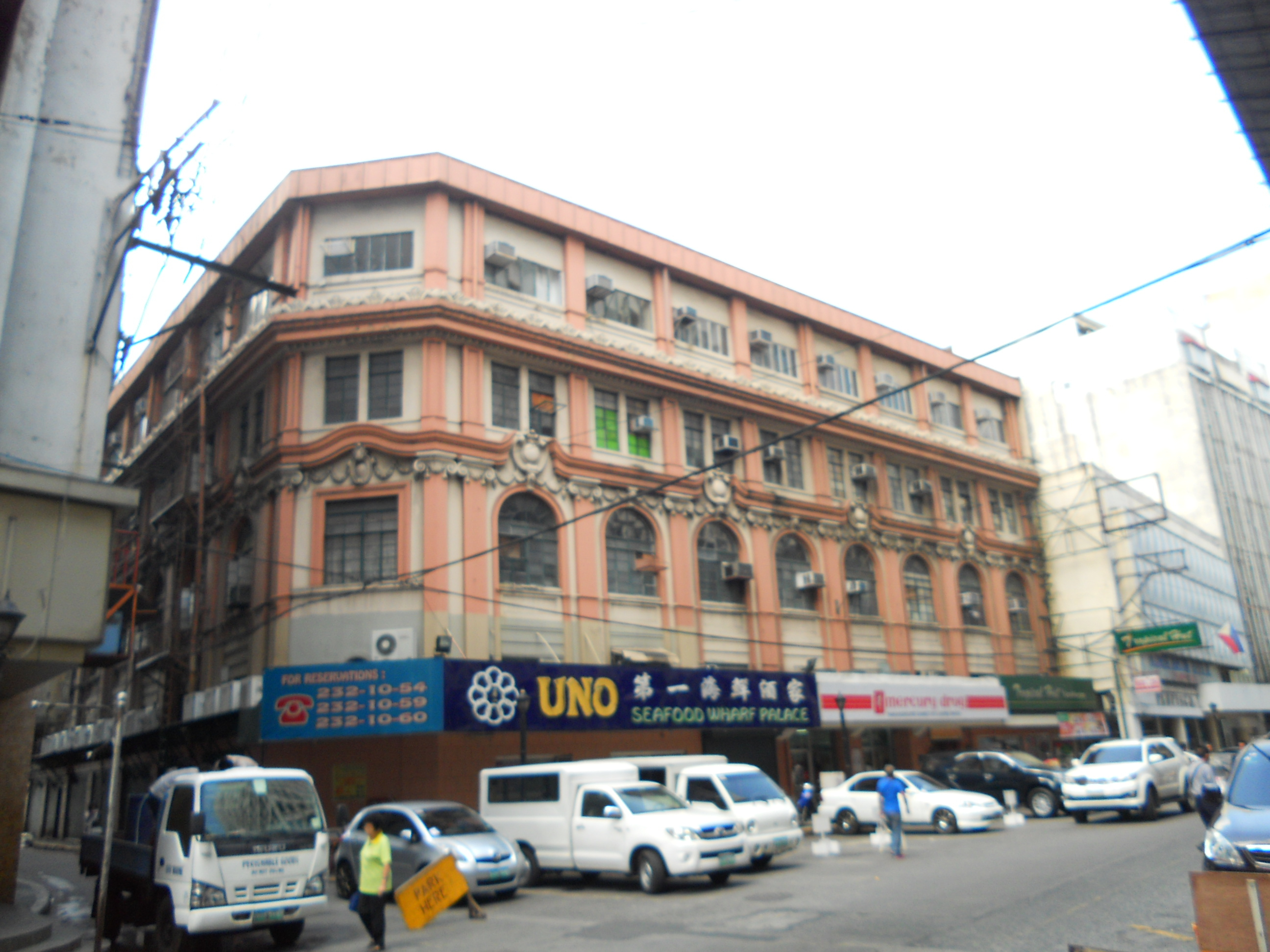 Calvo Building, Escolta